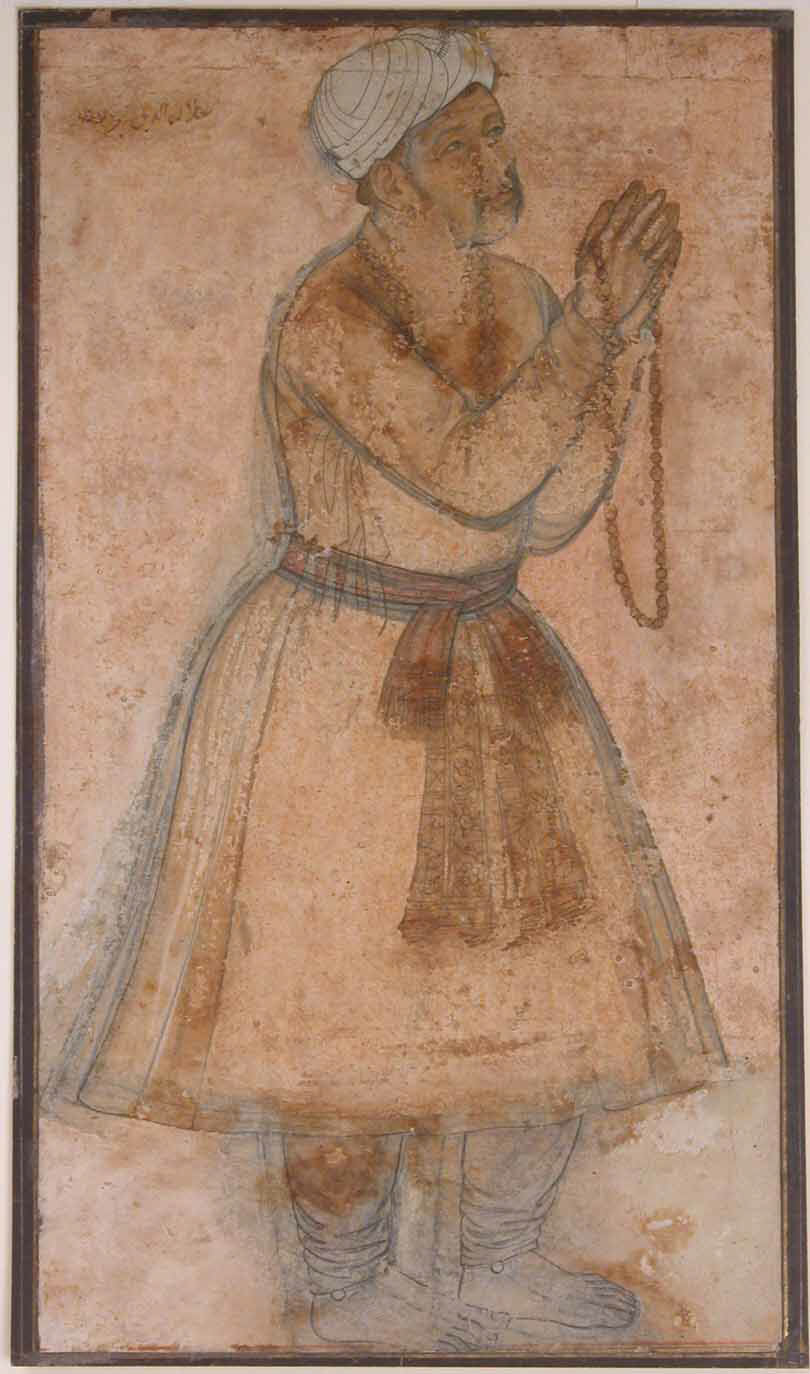 Portrait of Emperor Akbar Praying Object Name: Illustrated single work Reign: Jahangir (1605–27) Date: early 17th century Geography: India Medium: Ink and gouache on paper Dimensions: 10 1/4 x 5 5/8in. (26 x 14.3cm) Classification: Codices Credit Line: H. O. Havemeyer Collection, Gift of Horace Havemeyer, 1929 Accession Number: 29.160.20 This artwork is not on display